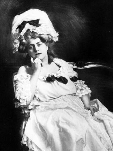 Portrait of Margarethe Siems as the Marschallin in Der Rosenkavalier